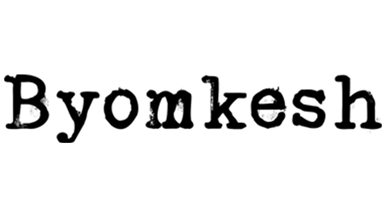 logo art work of byomkesh web series